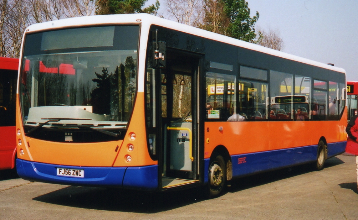 A Centrebus bus at the 2007 Cobham bus rally at Longcross, Surrey. It is a VDL SB120 with Plaxton Centro body, registration mark FJ56 ZWC, fleet number 607.